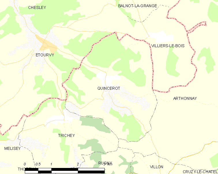 Map of French municipality Quincerot